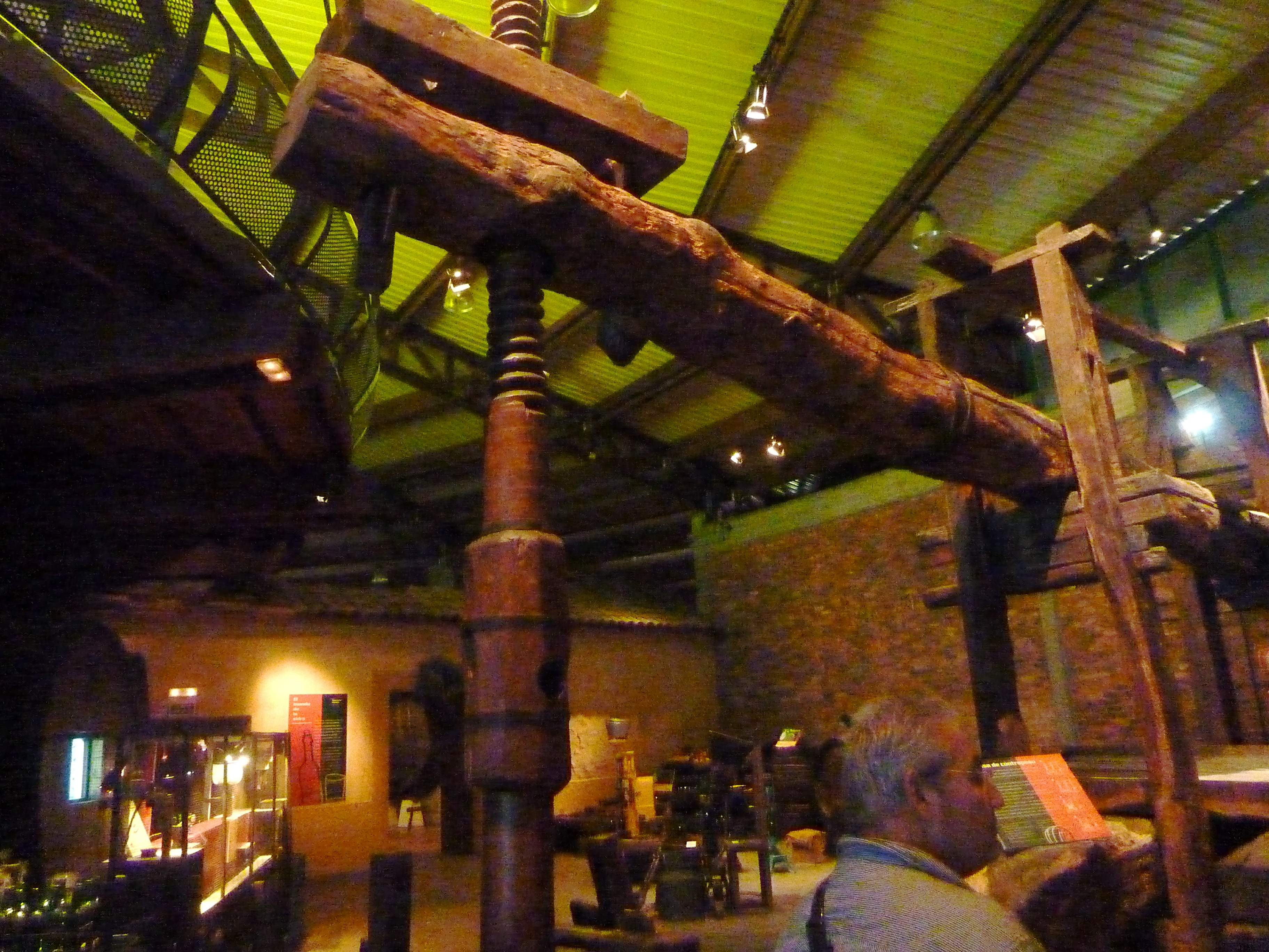 Cider Museum in Nava, Asturias, Spain.